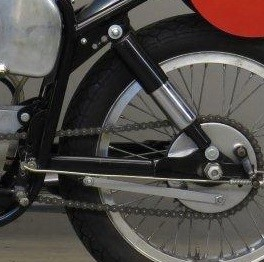 1952 Roland Pike BSA ZB32 Gold Star 350cc-racer swingarm